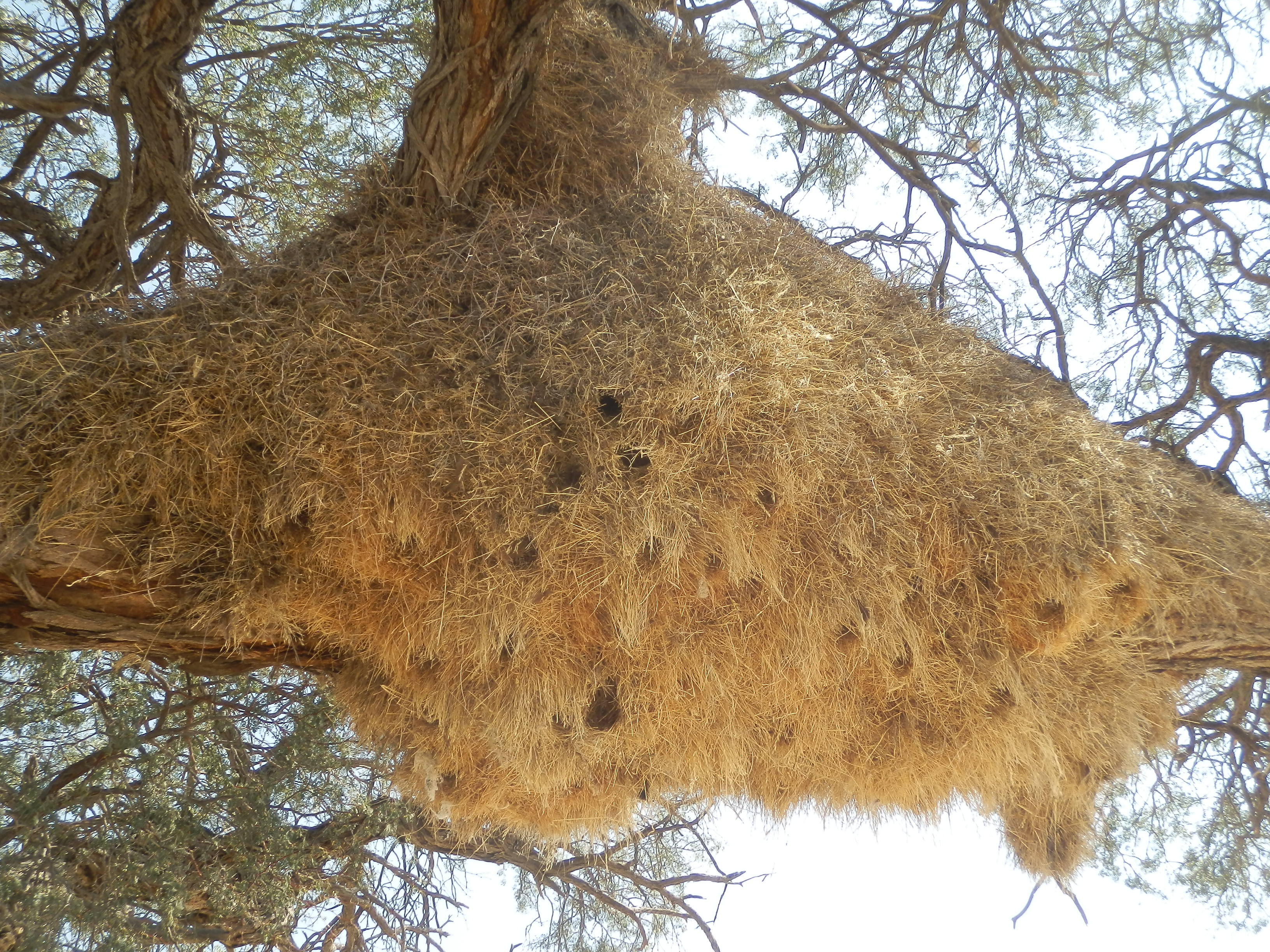 Group-nest of weaver-birds in a tree near a watering hole in a game preserve east of Swakopmund, Namibia